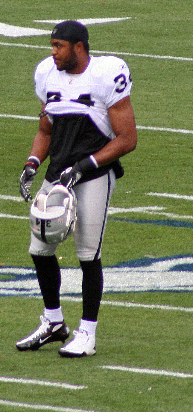 Mike Mitchell, a safety on the Oakland Raiders American football team.